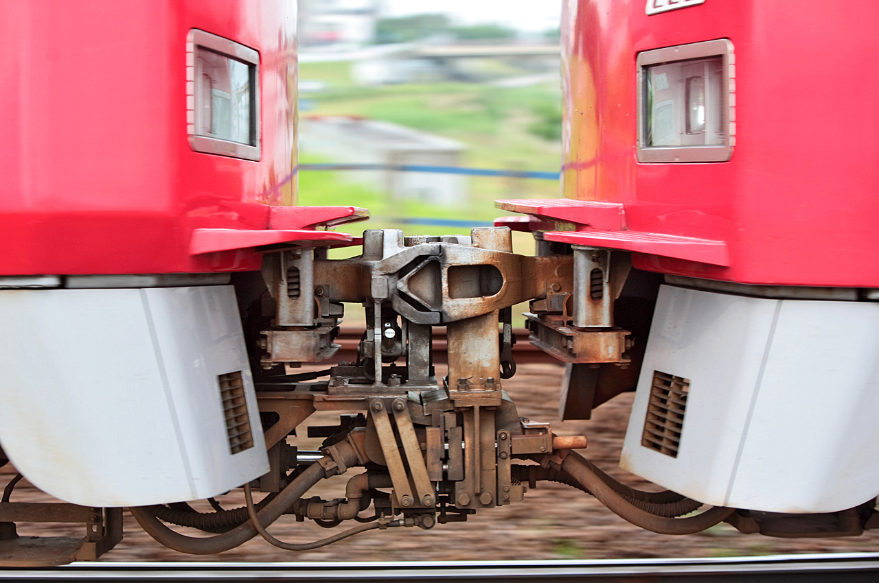 Meitetsu's original equipment, M-Shiki (Meitetsu-Shiki) automatic electric and air couplers ( left - Type Mo 3200, right - Type Ku 3500 ).